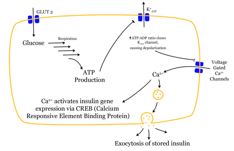 Mechanism of glucose dependent insulin release